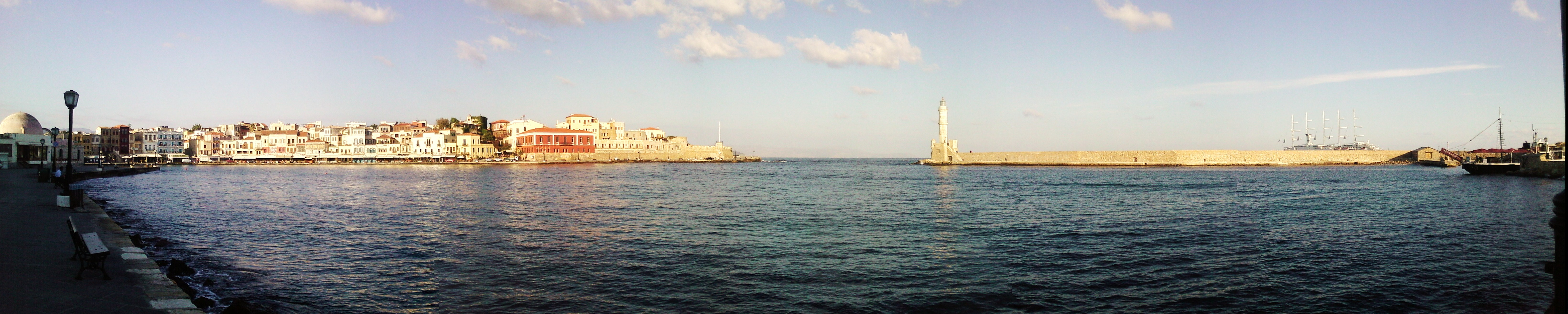 Venetsian port of Chania panoramic